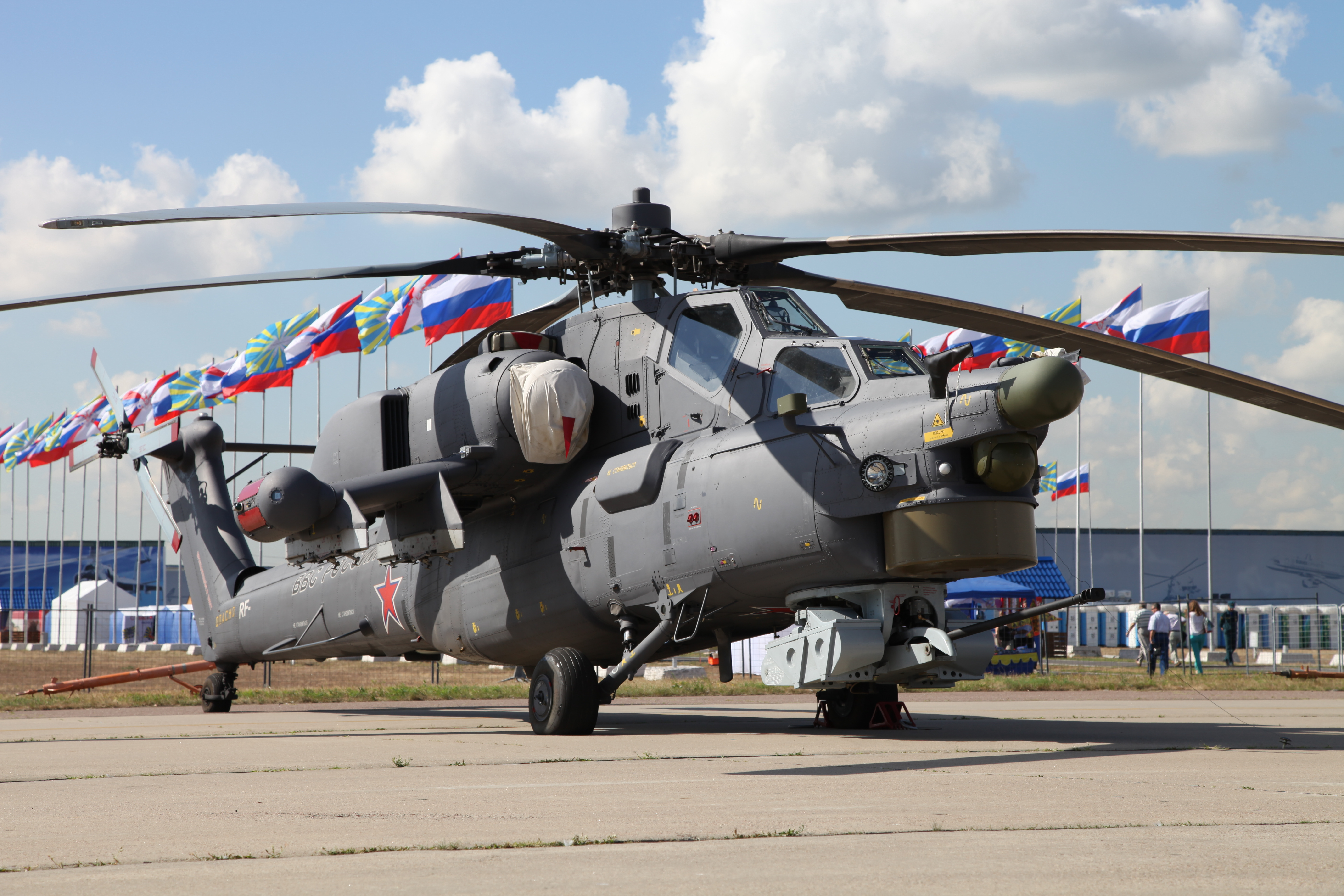 Aircraft at the Celebration of the 100th anniversary of Russian Air Force.